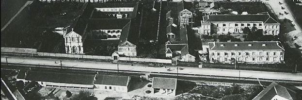 agadf